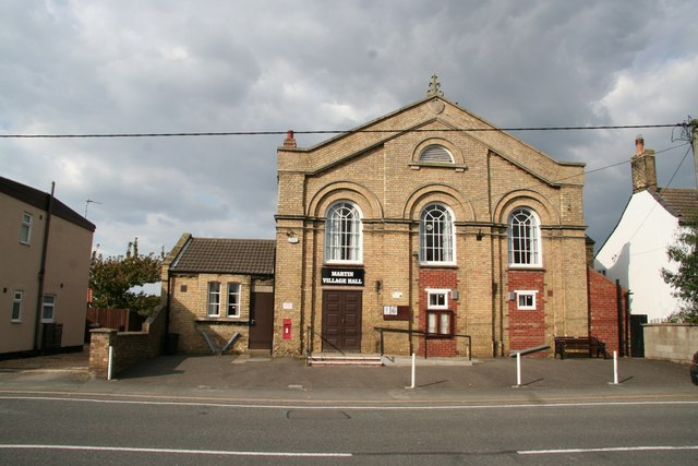 Martin Village Hall Former Methodist Chapel of 1860, converted to the Village Hall in the 1950s